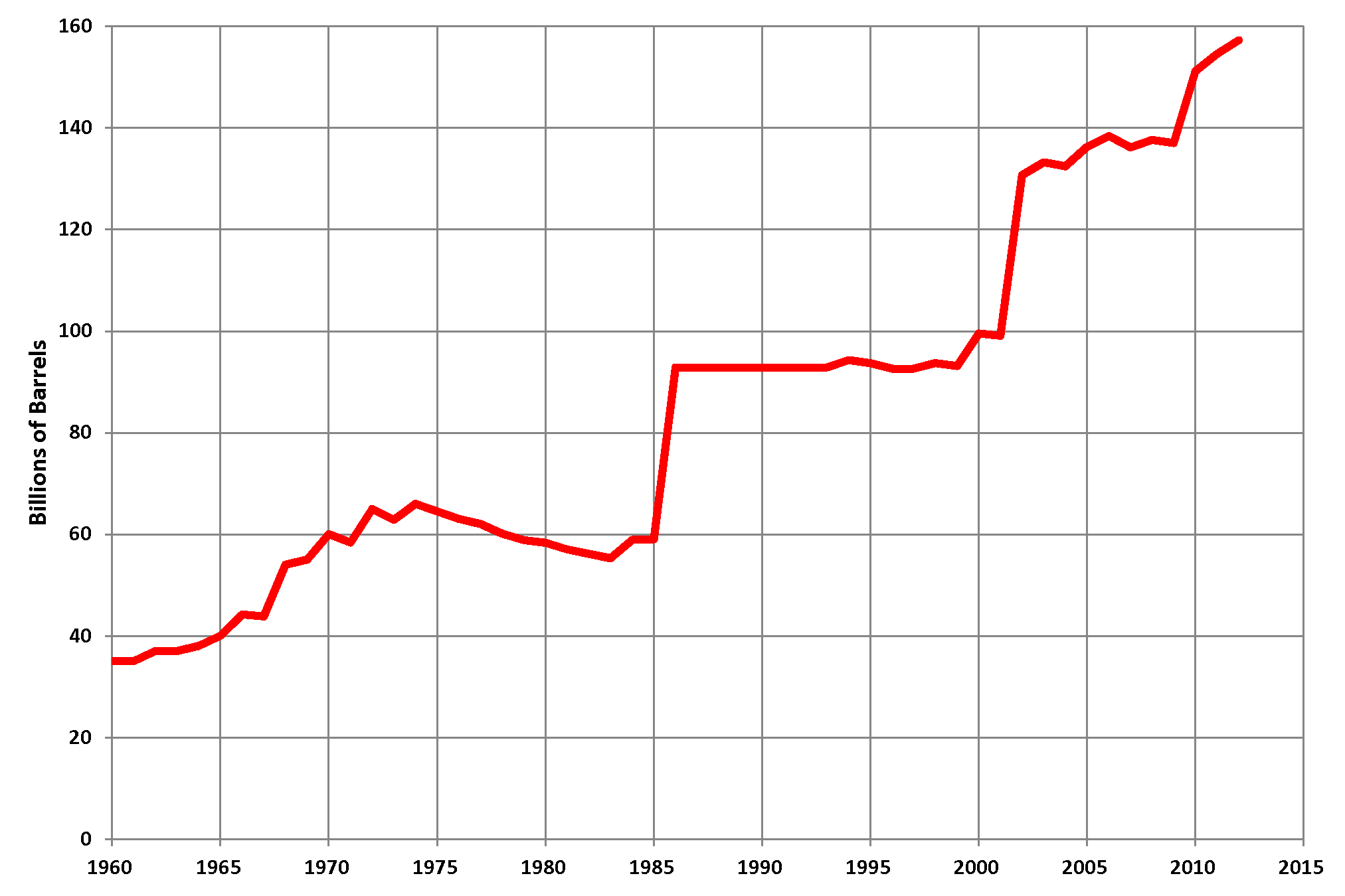 Proved oil reserves in Iran